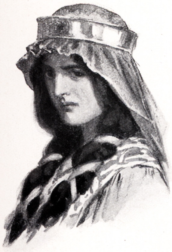 W. H. Margetson's illustration for Legends of King Arthur and His Knights by Janet MacDonald Clark.